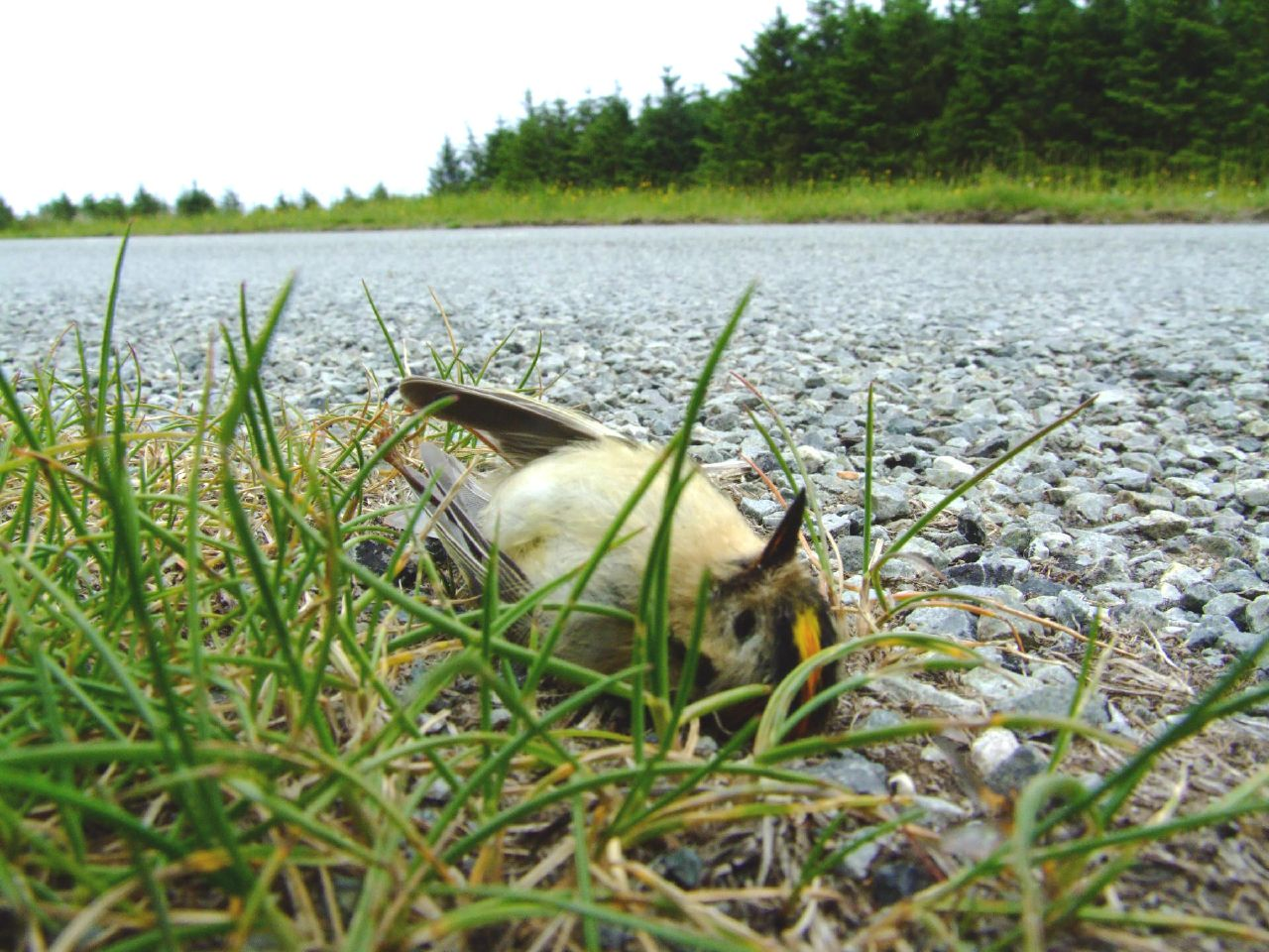 A dead male Goldcrest; roadkill by the road side on the A855 by Trotternish, Skye, Scotland.